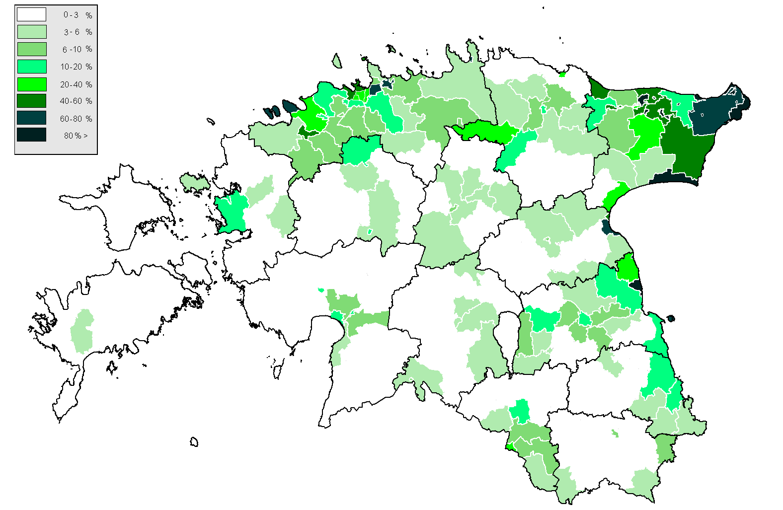 Distribution of the Russian language in Estonia according to data from the 2000 Estonian census